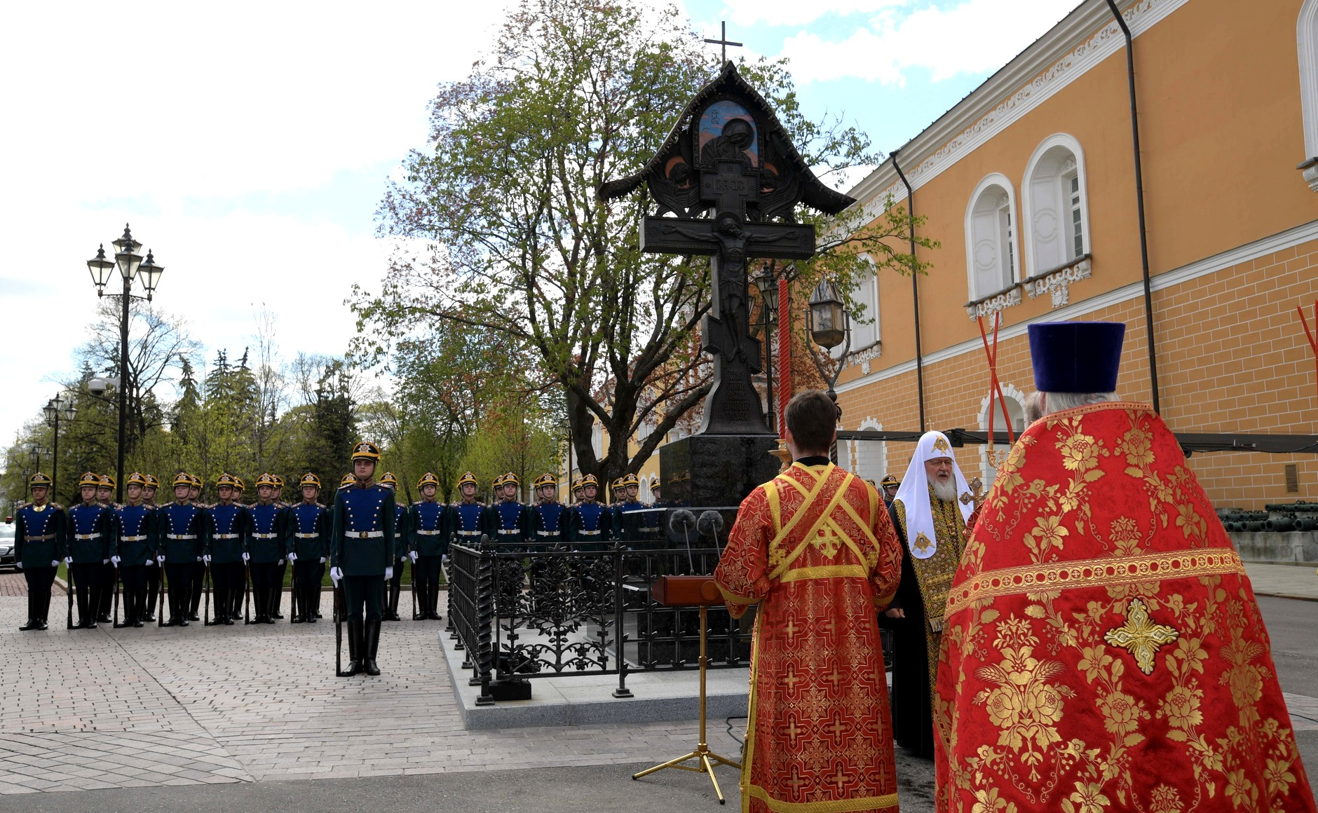 Ceremony rededicating a monument to Grand Duke Sergei Alexandrovich. Patriarch Kirill of Moscow and All Russia consecrates the memorial cross at the Kremlin, Moscow, Russia.